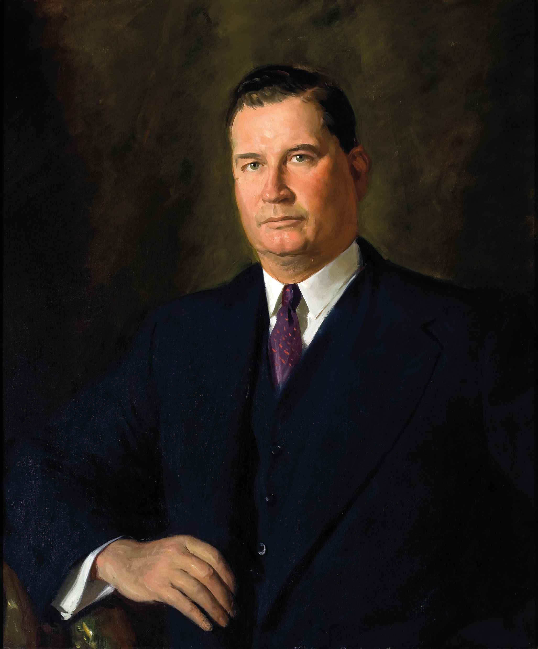 official portrait of Prime Minister of Australia Arthur Fadden